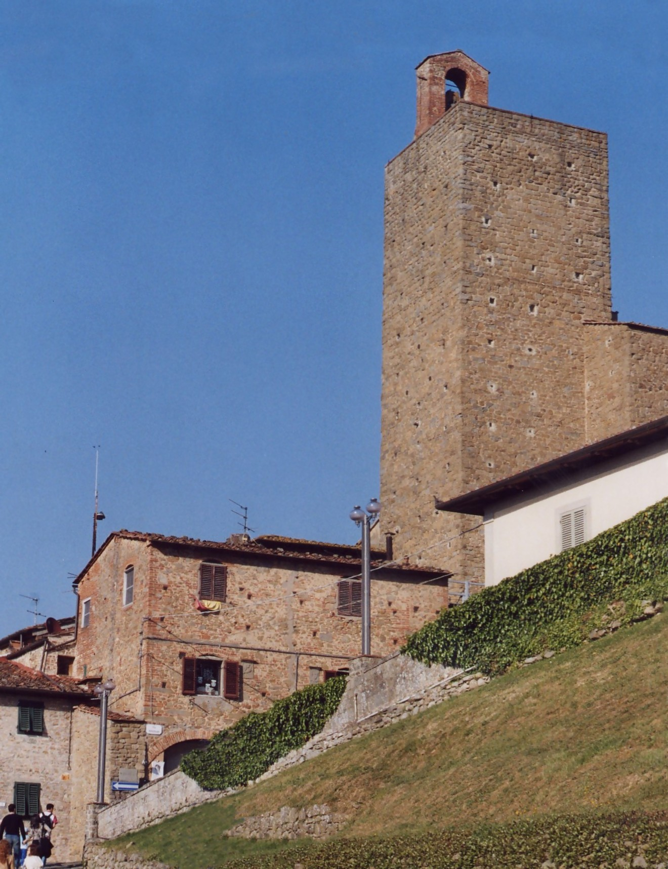 Tower of "Castello dei Conti Guidi", Vinci, Tuscany, Italy